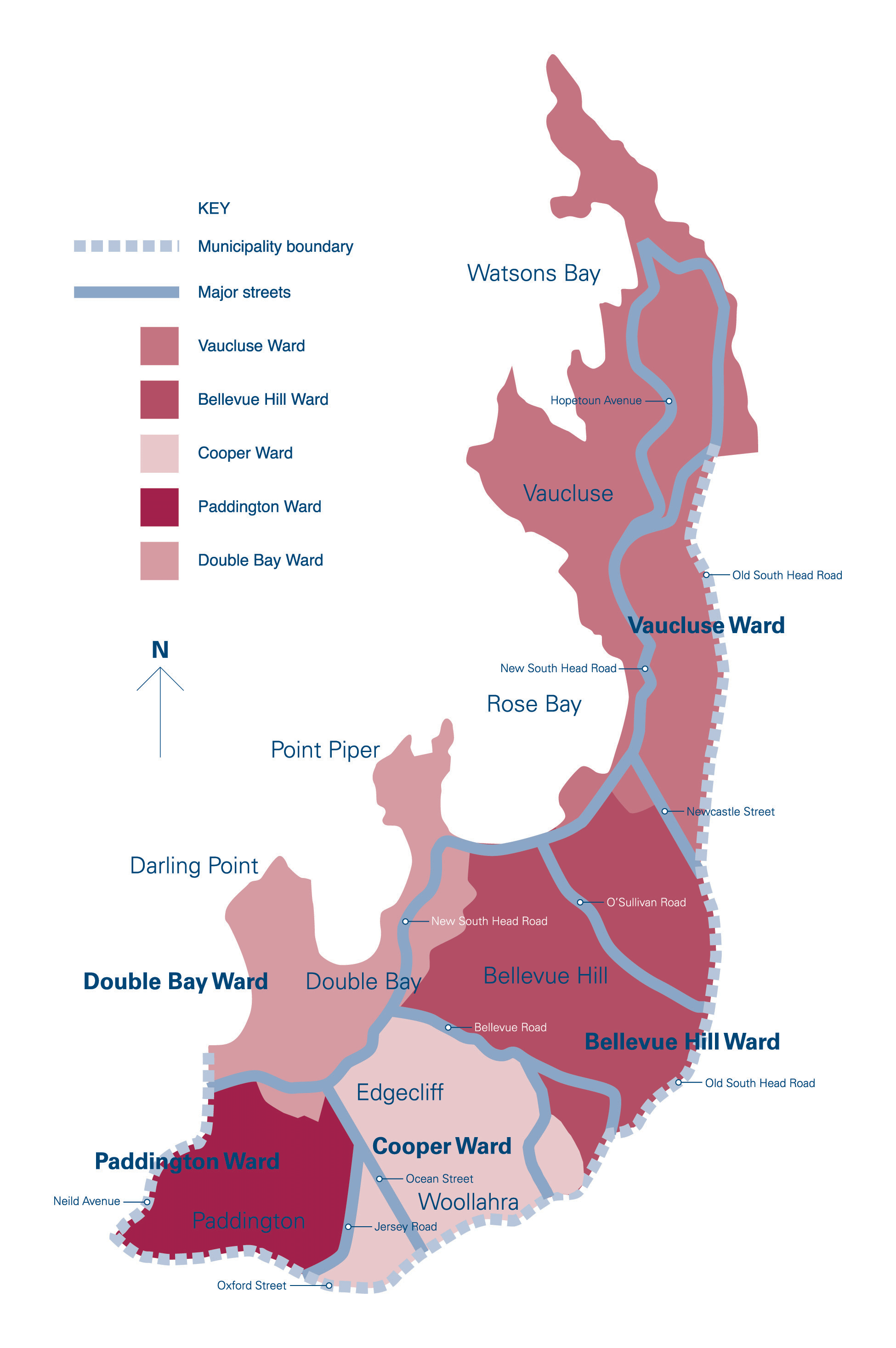 Woollahra Ward distribution